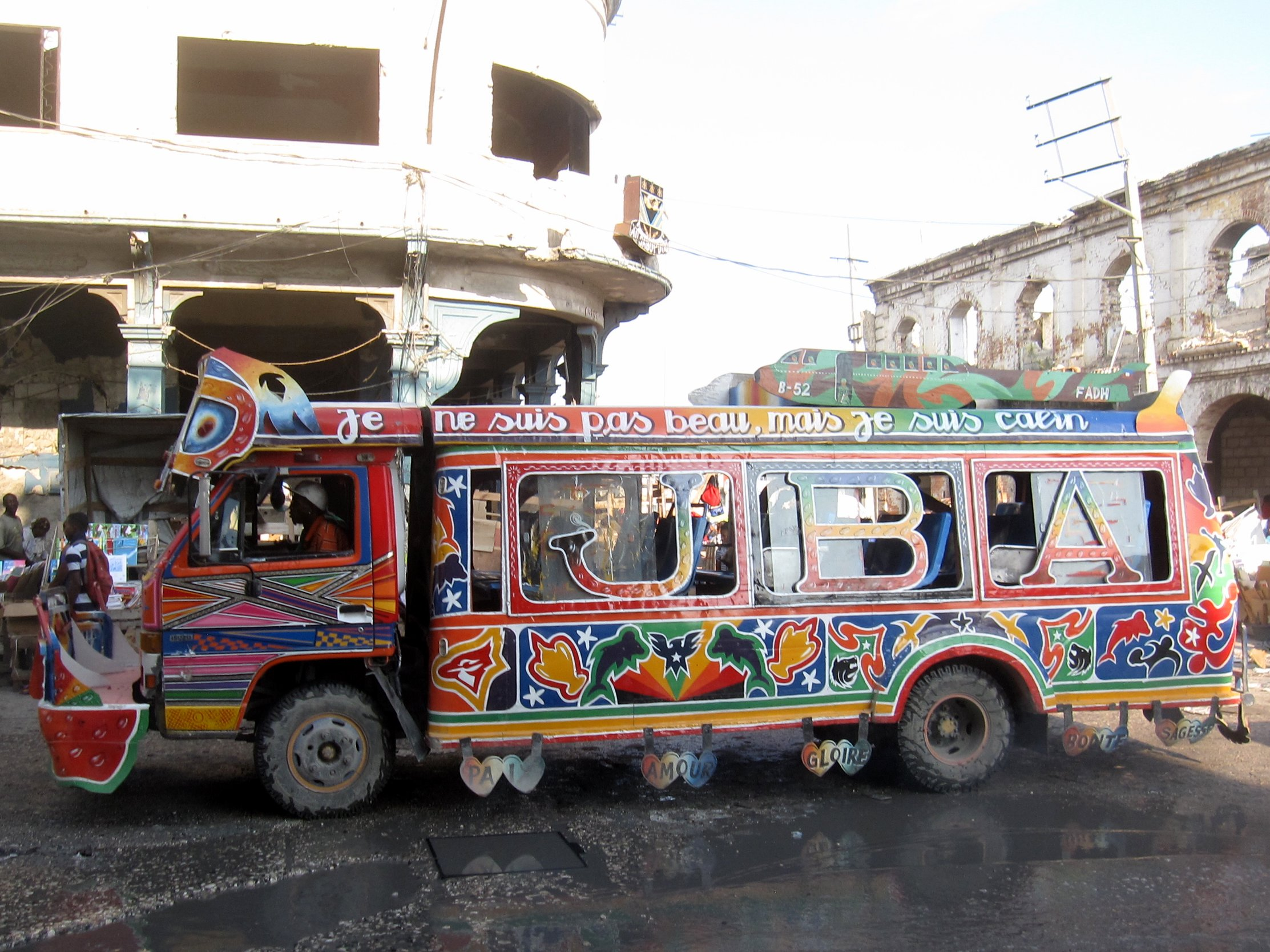 Supersize taptaps ply the streets